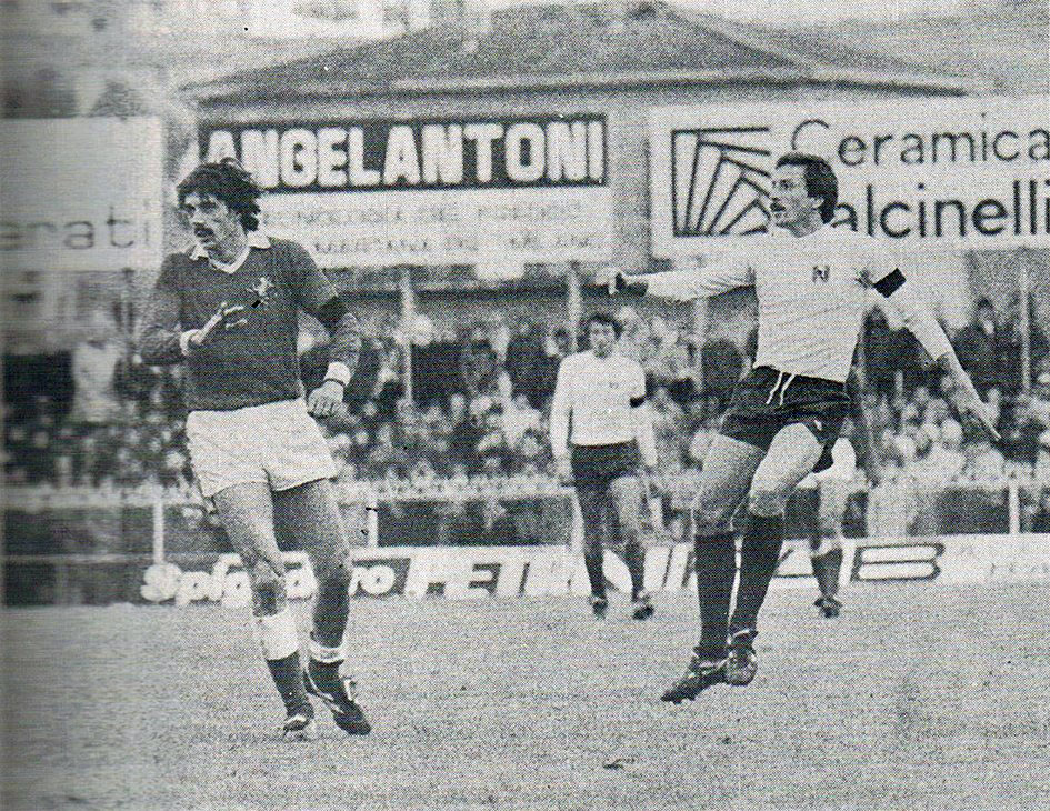 Il calciatore biancorosso Aldo Agroppi (a sinistra) e il giocatore granata Renato Zaccarelli (a destra) durante Perugia-Torino (1-1), sfida giocata allo stadio Comunale di Pian di Massiano di Perugia e valevole per la 6ª giornata del campionato italiano di Serie A 1976-77.